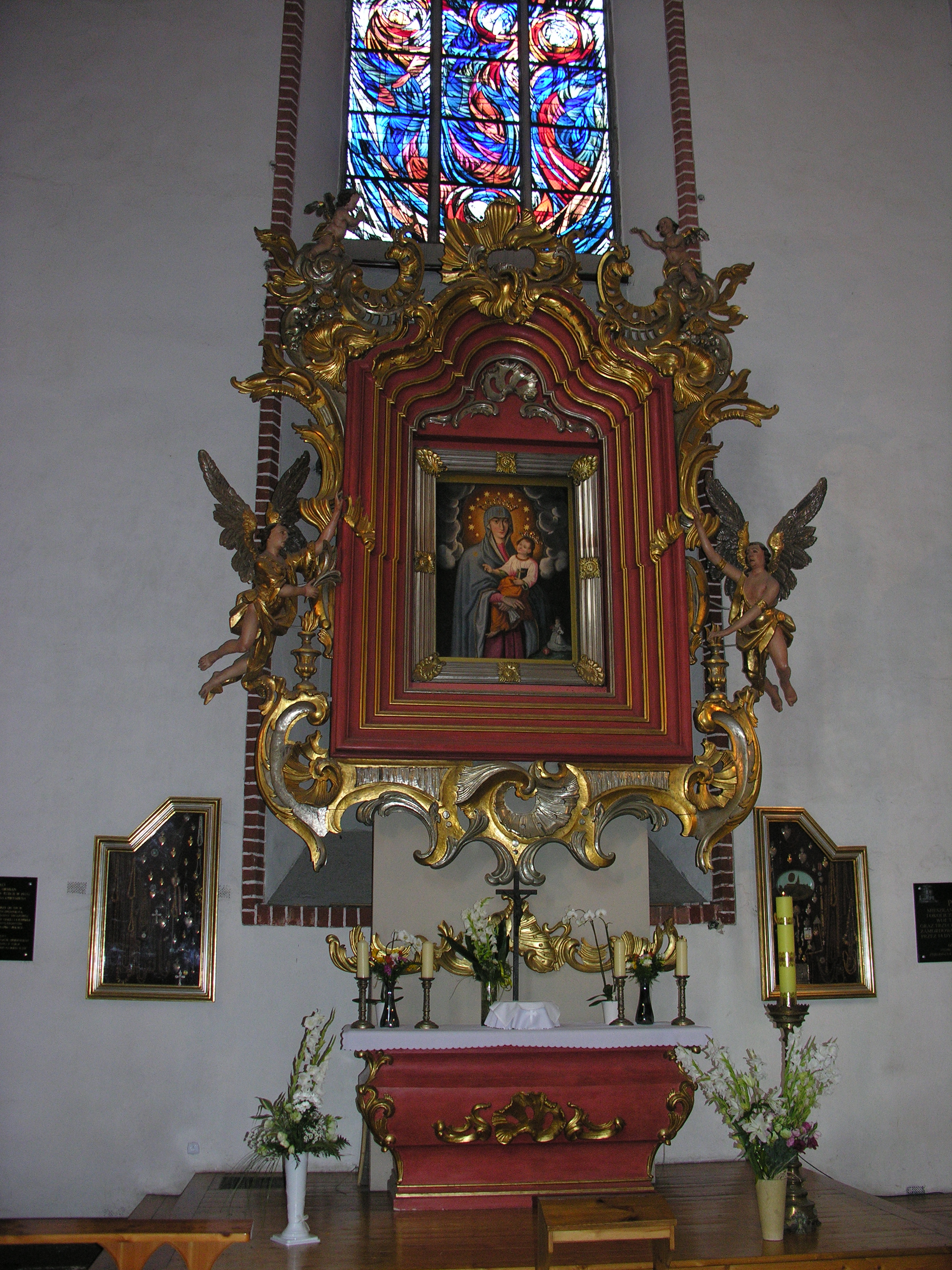 Obraz Matki Boskiej Podkamieńskiej w kościele dominikanów we Wrocławiu